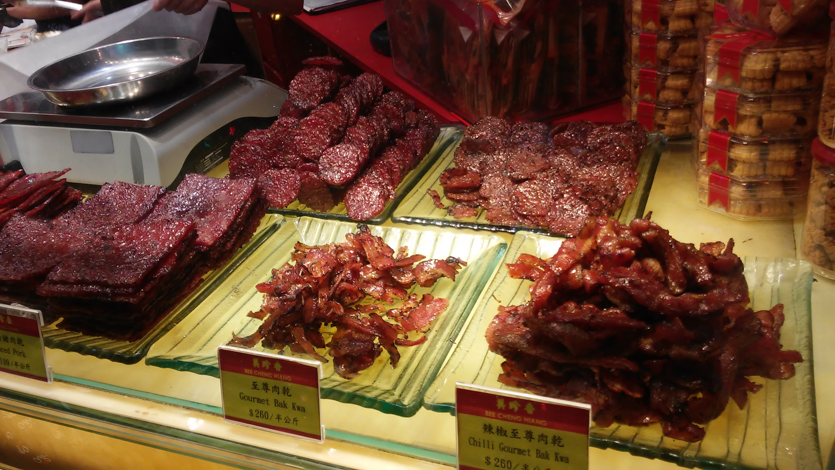 Causeway Bay Yee Woo Street shop 美珍香 Bee Cheng Hiang beef meat food Oct-2014